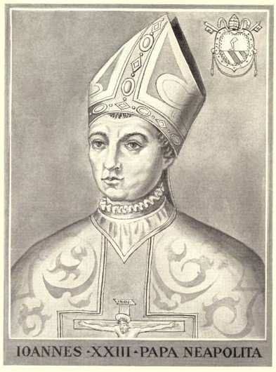 This illustration is from The Lives and Times of the Popes by Chevalier Artaud de Montor, New York: The Catholic Publication Society of America, 1911. It was originally published in 1842.